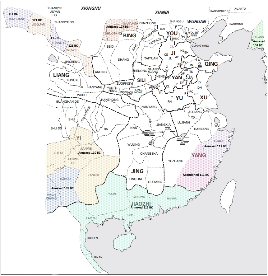 Han expansion